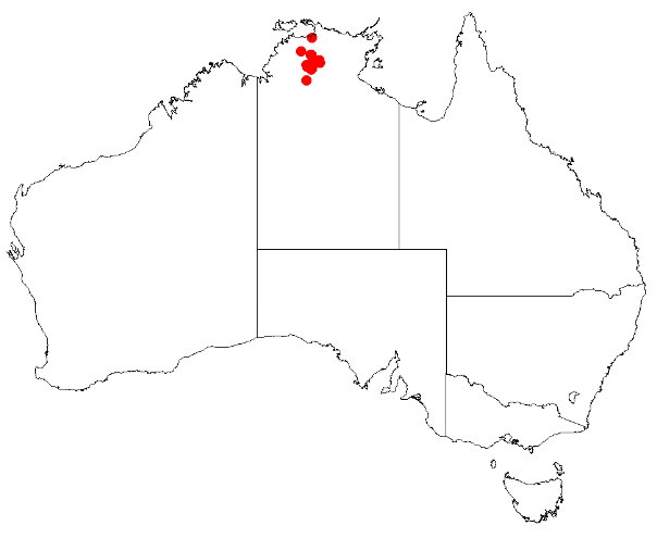 Acacia helicophylla occurrence data from Australasian Virtual Herbarium downloaded 8 December 2018 from